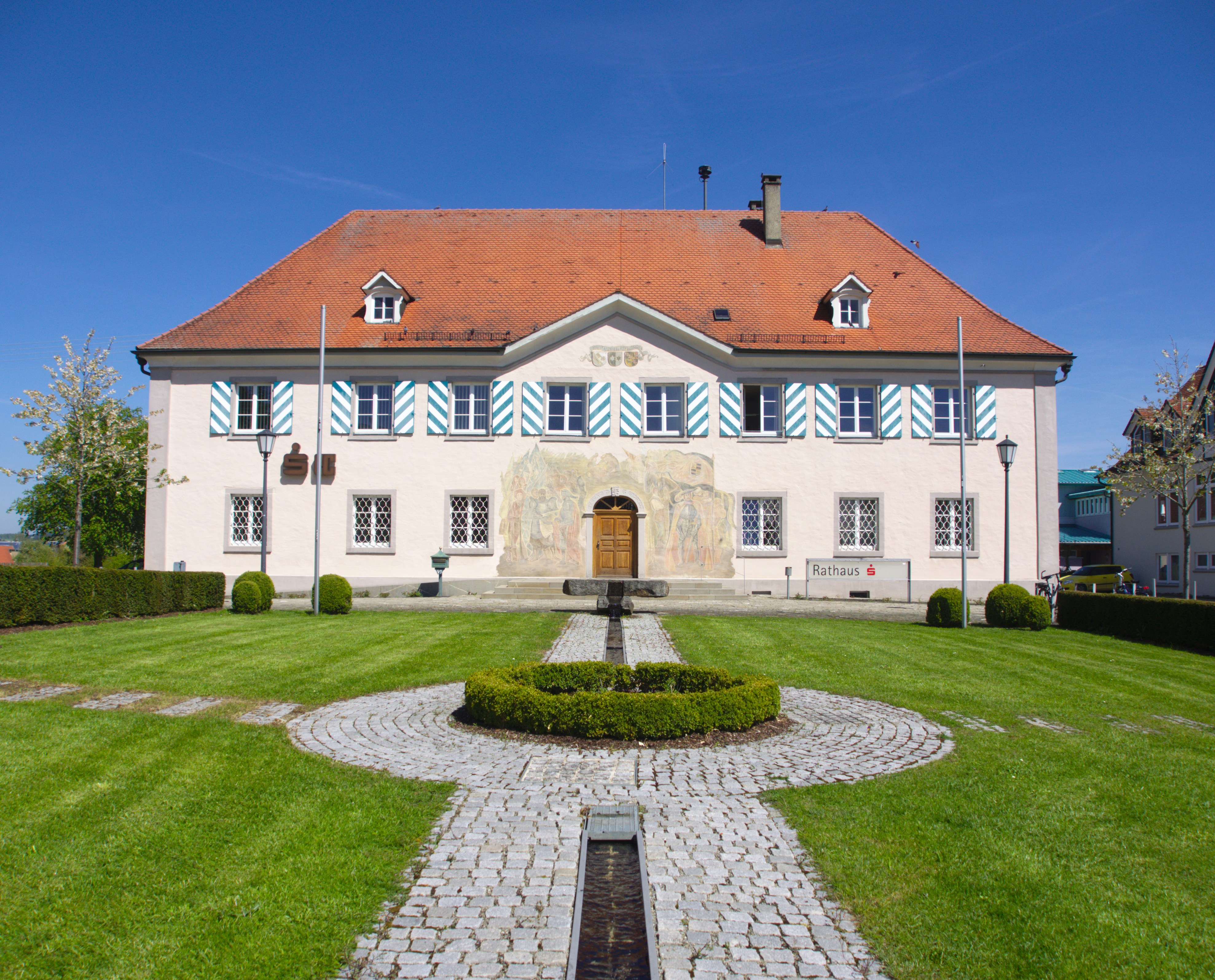 town hall of Herdwangen-Schönach